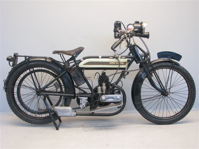 Bown motorcycle from 1920 with Villiers 269 cc two stroke engine